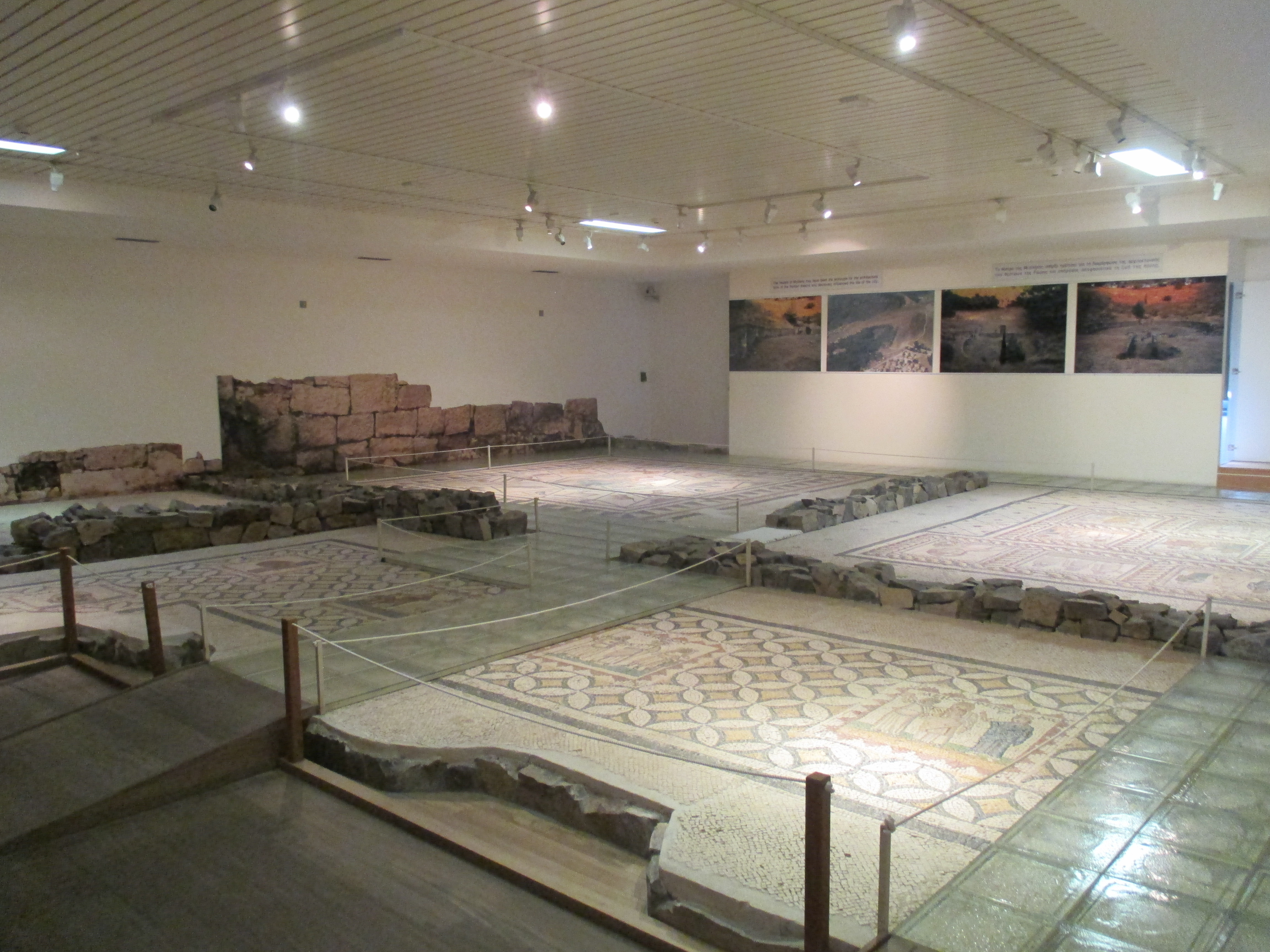 Archaeological Museum of Mytilene, mosaics from the House of Menander.